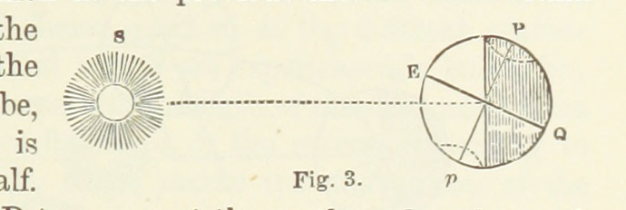 Image taken from: Title: "A Class-Book of Physical Geography ... New and improved edition, revised by J. Francon Williams" Author: HUGHES, William - F.R.G.S Contributor: WILLIAMS, John Francon. Shelfmark: "British Library HMNTS 010004.aa.1." Page: 25 Place of Publishing: London Date of Publishing: 1891 Publisher: George Philip & Son Issuance: monographic Identifier: 001760259 Explore: Find this item in the British Library catalogue, 'Explore'. Open the page in the British Library's itemViewer (page image 25) Download the PDF for this book Image found on book scan 25 (NB not a pagenumber)Download the OCR-derived text for this volume: (plain text) or (json) Click here to see all the illustrations in this book and click here to browse other illustrations published in books in the same year. Order a higher quality version from here.